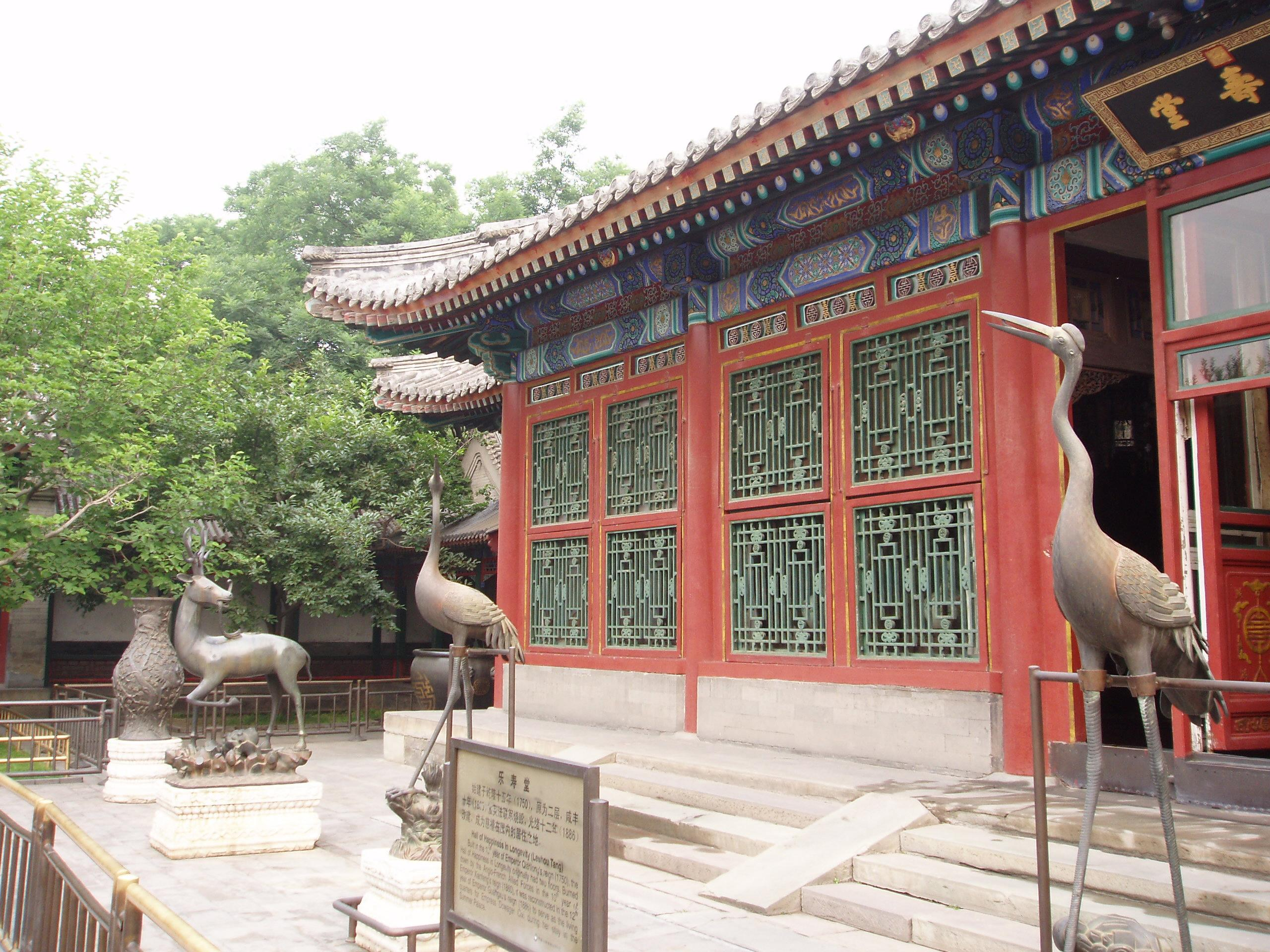 Summer Palace ,Beijing, China